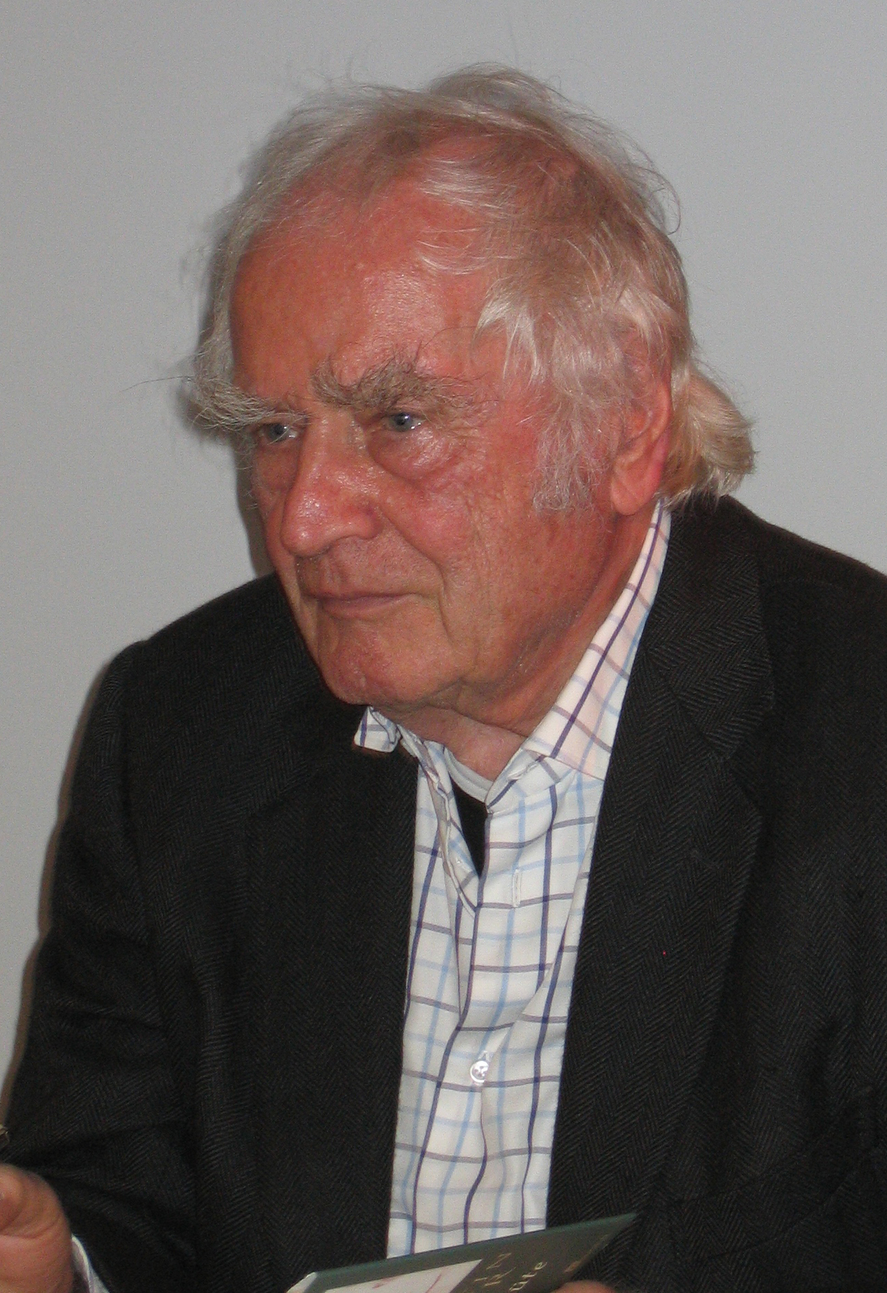 The writer Martin Walser during a book presentation in Aachen, Germany